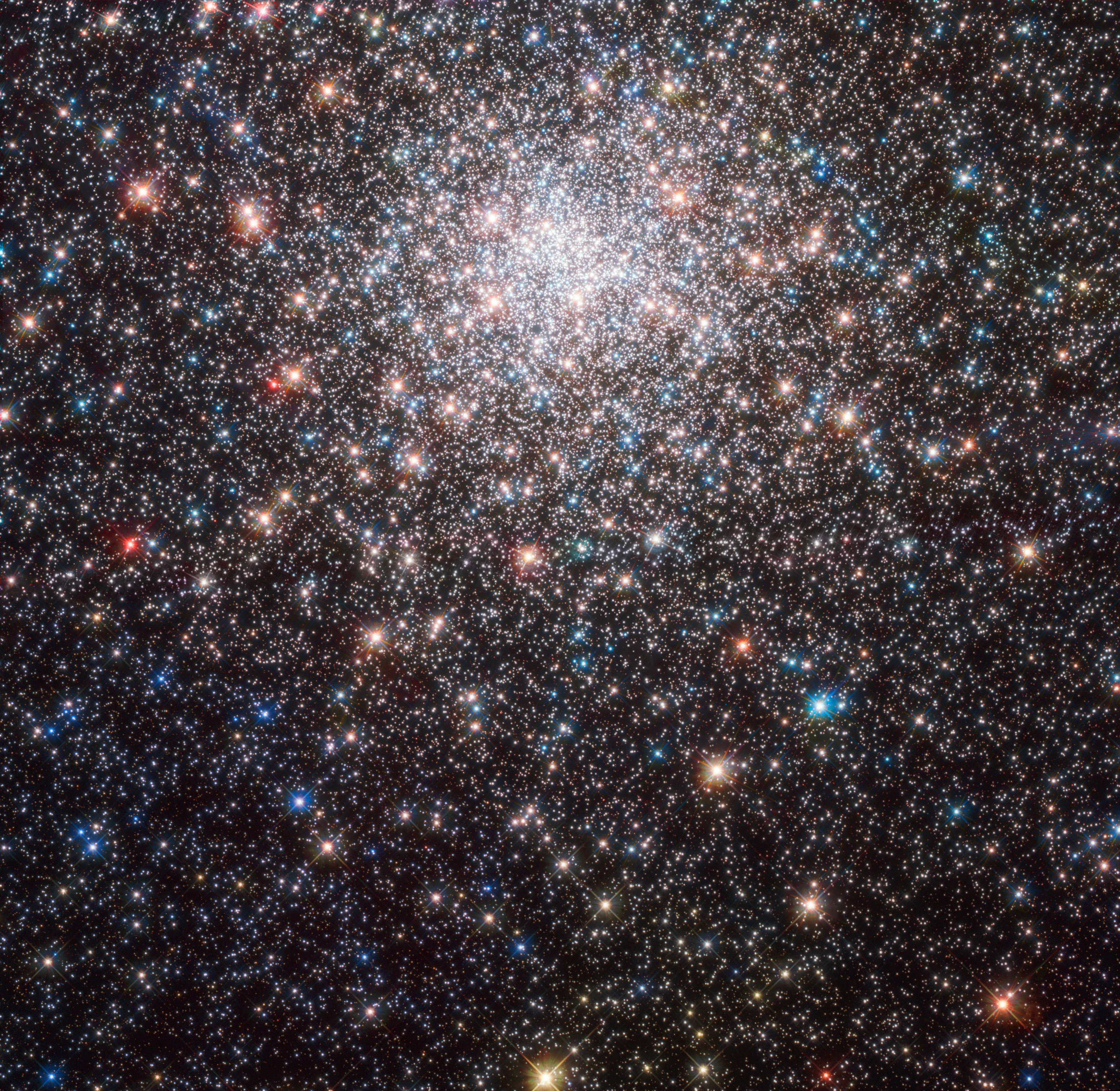 This Hubble Picture of the Week shows Messier 28, a globular cluster in the constellation of Sagittarius (The Archer), in jewel-bright detail. It is about 18 000 light-years away from Earth. As its name suggests, this cluster belongs to the Messier catalogue of objects — however, when astronomer Charles Messier first added Messier 28 to his list in 1764, he catalogued it incorrectly, referring to it as a “[round] nebula containing no star”. While today we know nebulae to be vast, often glowing clouds of interstellar dust and ionised gases, until the early twentieth century a nebula represented any astronomical object that was not clearly localised and isolated. Any unidentified hazy light source could be called a nebula. In fact, all 110 of the astronomical objects identified by Messier were combined under the title of the Catalogue of Nebulae and Star Clusters. He classified many objects as diverse as star clusters and supernova remnants as nebulae. This includes Messier 28, pictured here — which, ironically, is actually a star cluster. Messier’s mistake is understandable. Whilst Messier 28 is easily recognisable as a globular stellar cluster in this image, it is far less recognisable from Earth. Even with binoculars it is only visible very faintly, as the distorting effects of the Earth’s atmosphere reduce this luminous ancient cluster to a barely visible smudge in the sky. One would need larger telescopes to resolve single stars in Messier 28. Fortunately, from space Hubble allows Messier 28 to be seen in all its beauty — far more than a faint, shapeless, nebulous cloud.